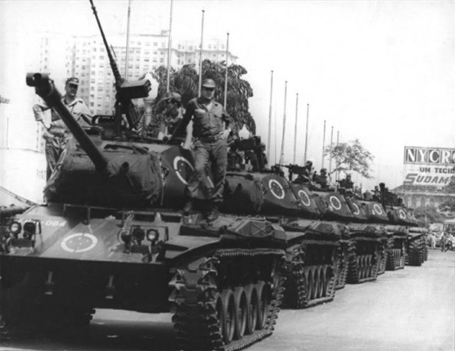 April 4, 1968, Rio de Janeiro: Brazilian troops occupy Presidente Vargas Ave for a requiem mass in memory of Edson Luís, murdered by gendarmes seven days earlier. These events were part of a series of building-up tensions between the people against the regime that led to a further toughening of repressive polices by December. Produced by the Correio da Manhã journal and published by the Brazilian National Archives.